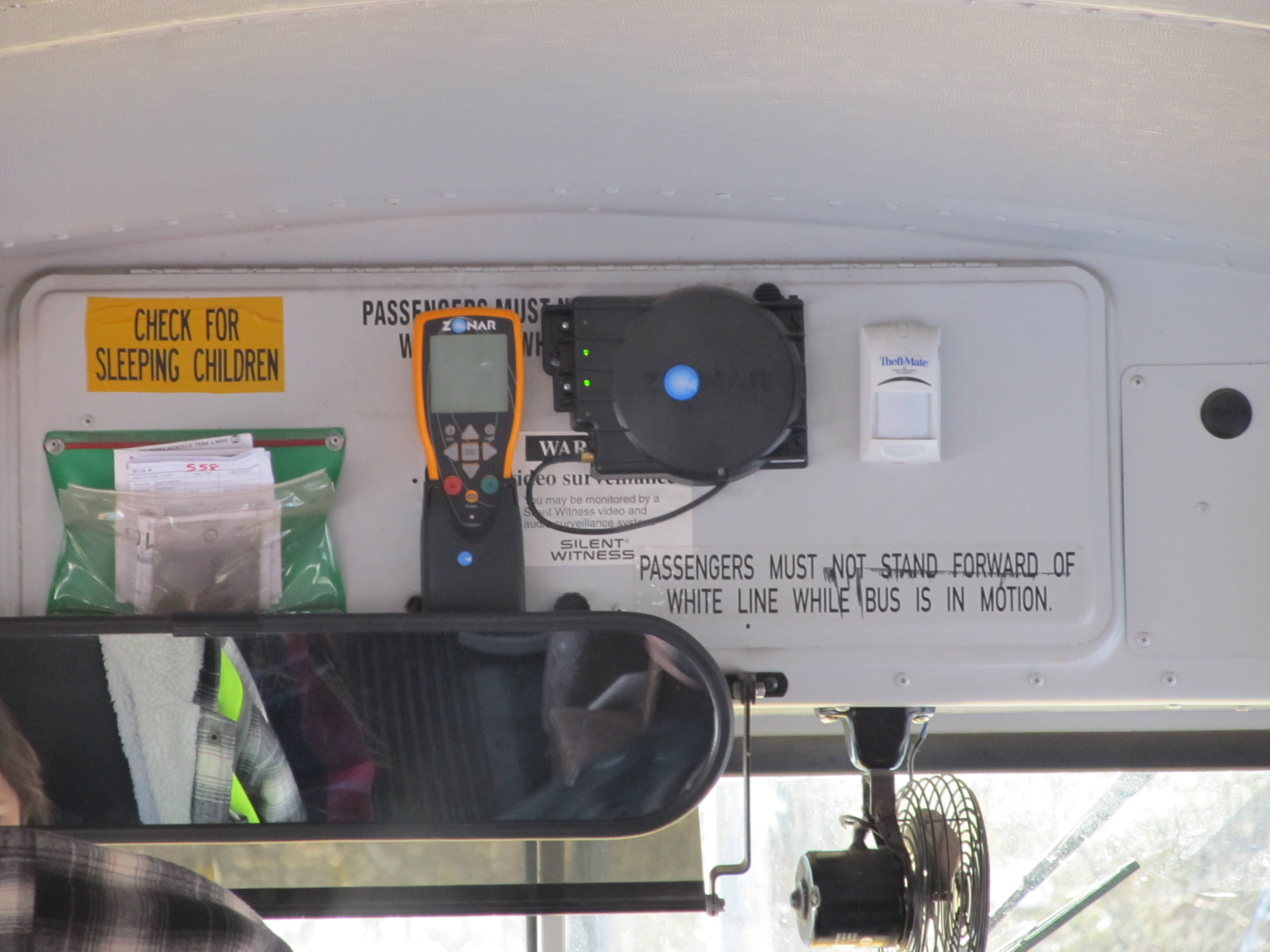 The Inside of a Thomas Built School Bus equipped with ZONAR GPS device and Child Check-Mate System's Theft-Mate System.